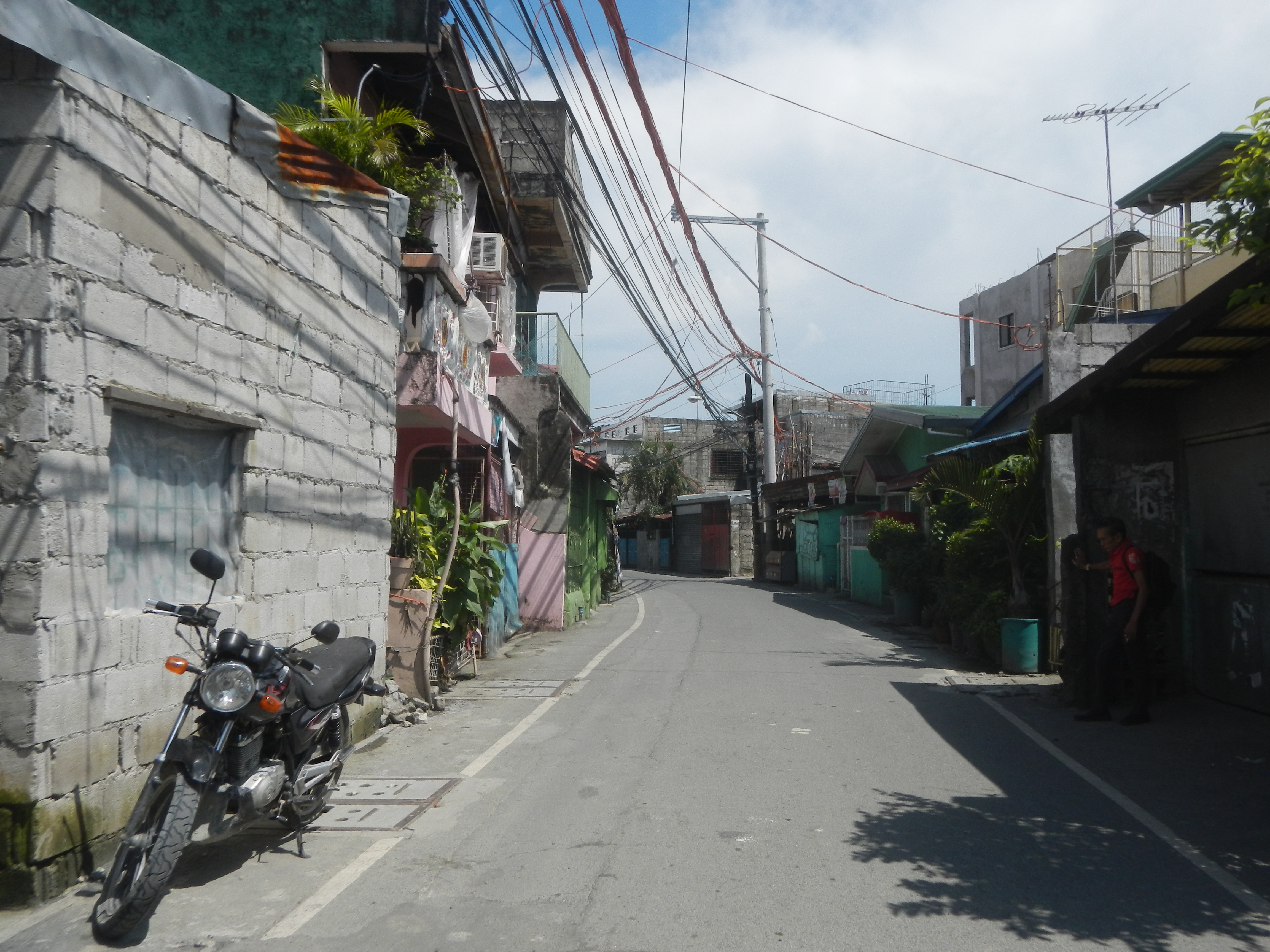 Center for Positive Future & Napindan Integrated School, Taguig City; Napindan Bridge (C-6 Road, Taguig River, Napindan River-Channel NHCS & Pasig River), Pinagbuhatan, Pasig City-Santa Ana, Taytay, Rizal; Taguig River Napindan River (Napindan Channel) Napindan, Taguig City Ibayo Tipas,Taguig City Barangay Ibayo-Tipas 14°32'15"N 121°5'18"E Napindan 14°32'4"N 121°5'53"E Taguig City Napindan Bridge (Pasig) 14°32'6"N 121°6'8"E Taguig River Napindan Hydraulic Control Structure or NHCS Pasig River (Napindan Channel) (Note: Judge Florentino Floro, the owner, to repeat, Donor Florentino Floro of all these photos hereby donate gratuitously, freely and unconditionally all these photos to and for Wikimedia Commons, exclusively, for public use of the public domain, and again without any condition whatsoever).